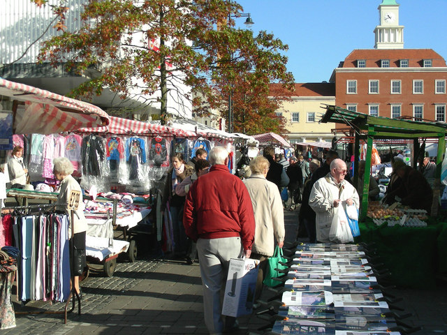 Romford Market Romford market was established by charter from King Henry III between 1242 and 1247.